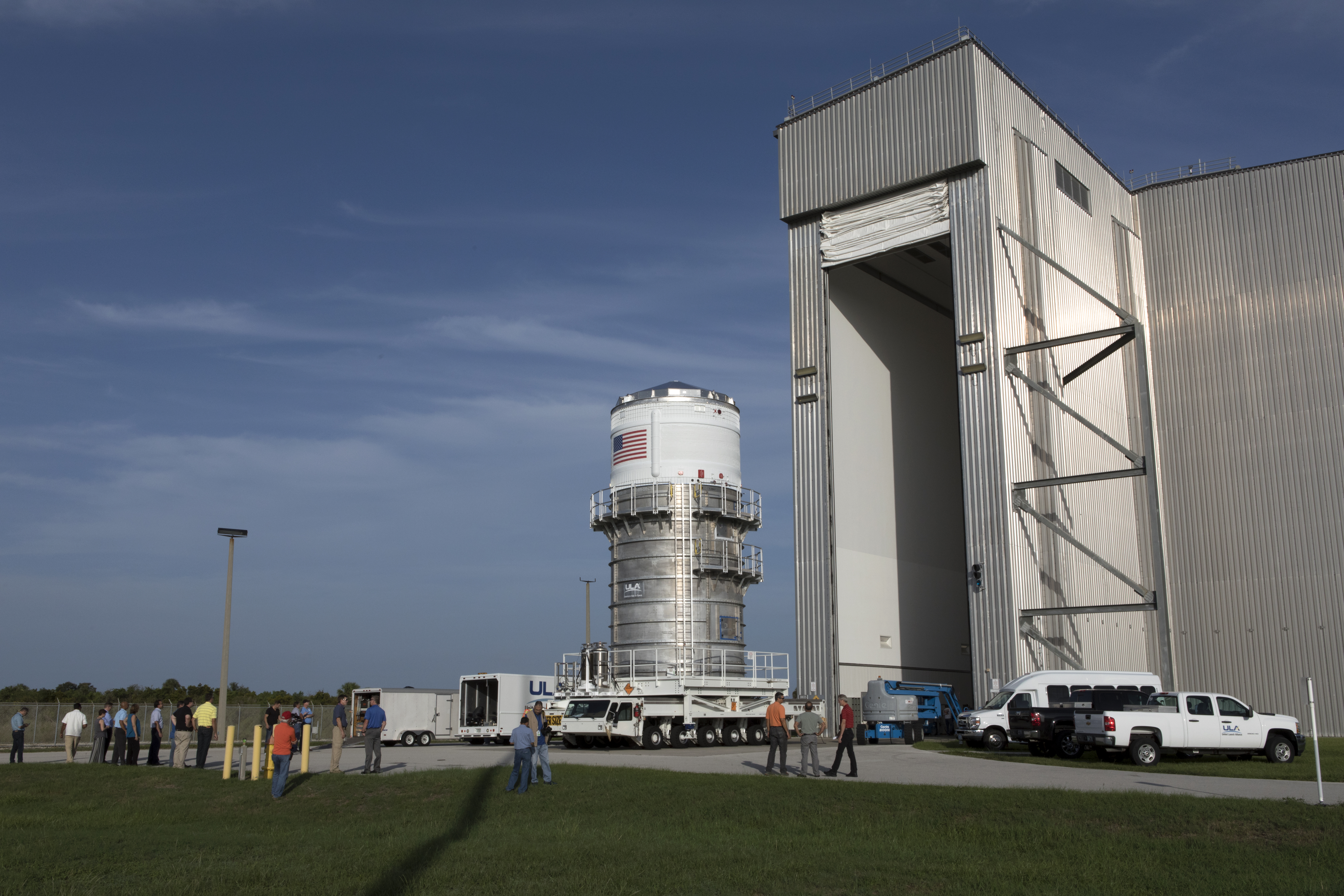 Interim Cryogenic Propulsion Stage (ICPS) is transported from the Delta Operations Center to the Space Station Processing Facility for staging and cleaning in preparation for processing of NASA's Space Launch System rocket.